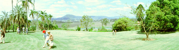 Gardens of Nindooinbah House, Nindooinbah Connection Road, Nindooinbah, Beaudesert.